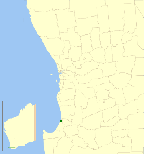 Description=Location of the Local Government Area in Western Australia